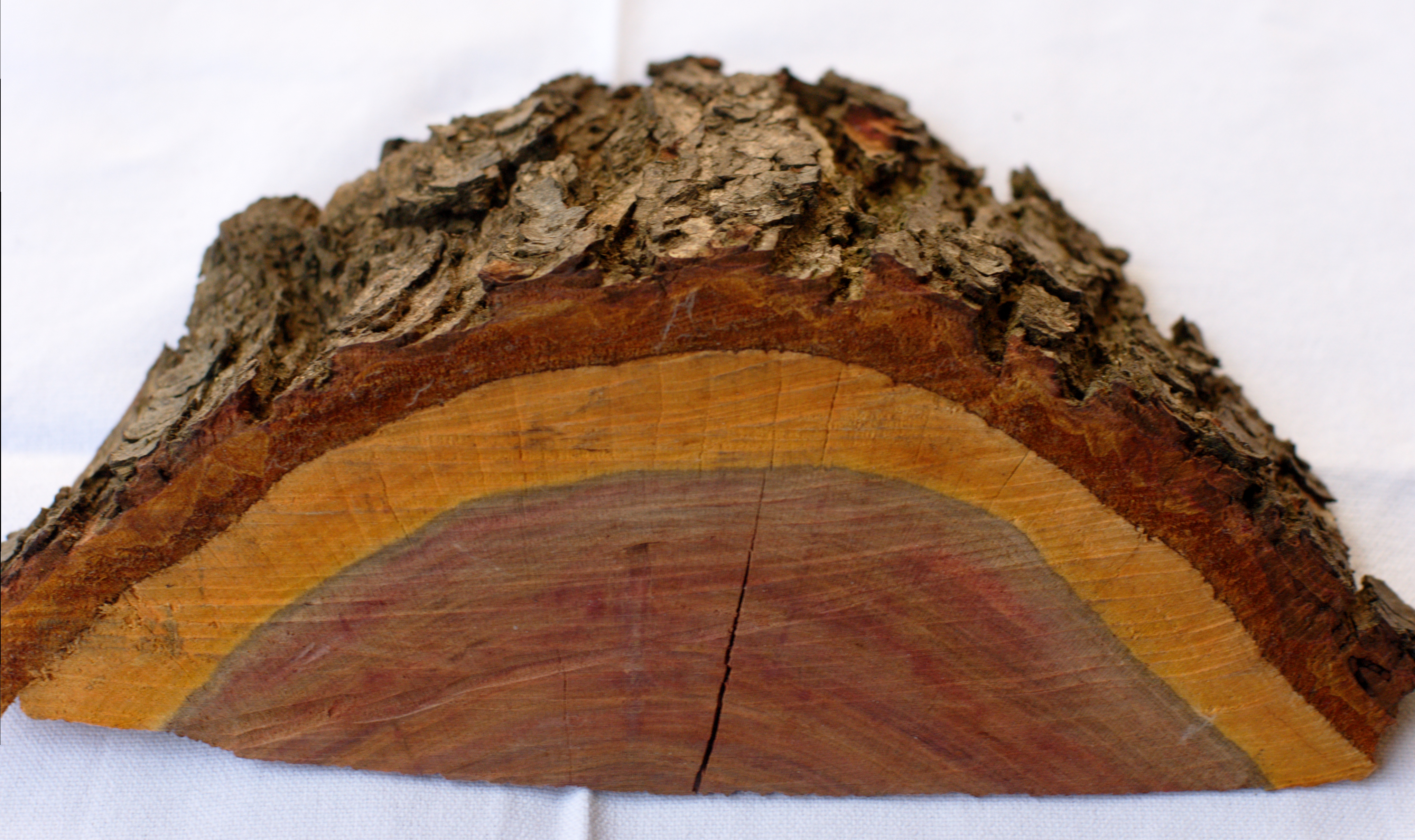 Section of a prune plum tree, with heartwood, orange couloured sapwood and bark